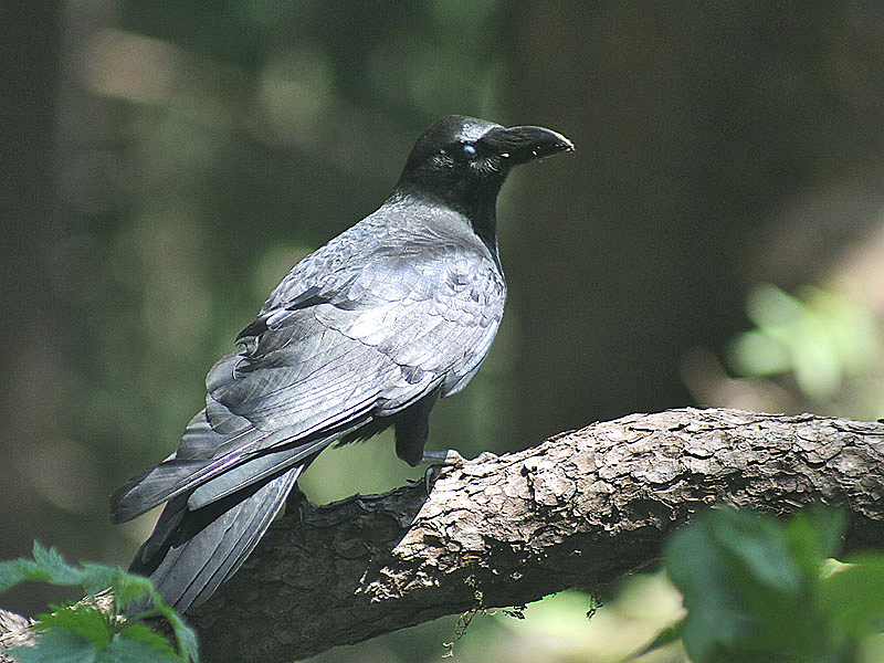 Large-billed Crow (Corvus macrorhynchos) in Kullu District of Himachal Pradesh, India.